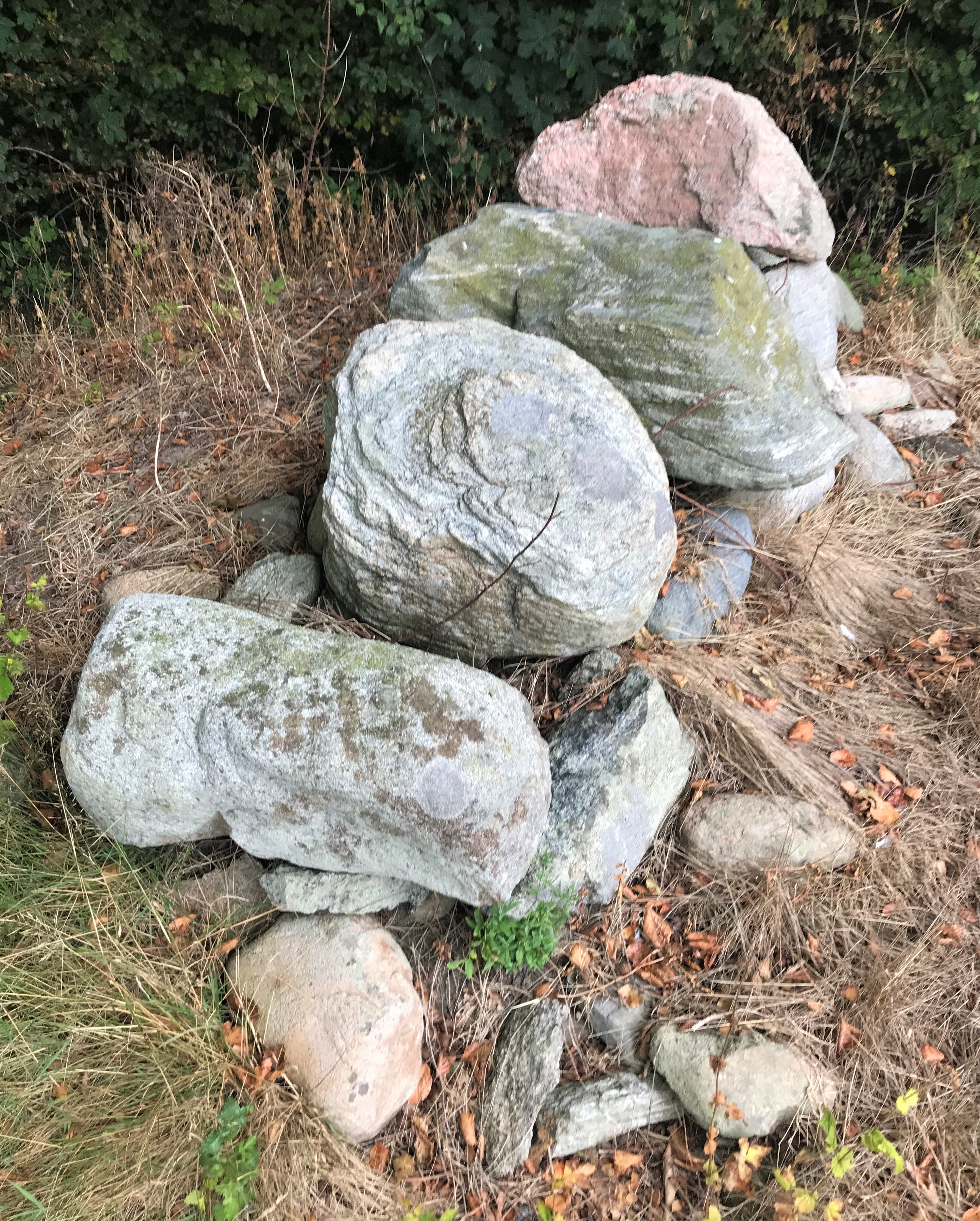 Cist of Dalgaards Østerhøj or Trinddorris close view from above 1